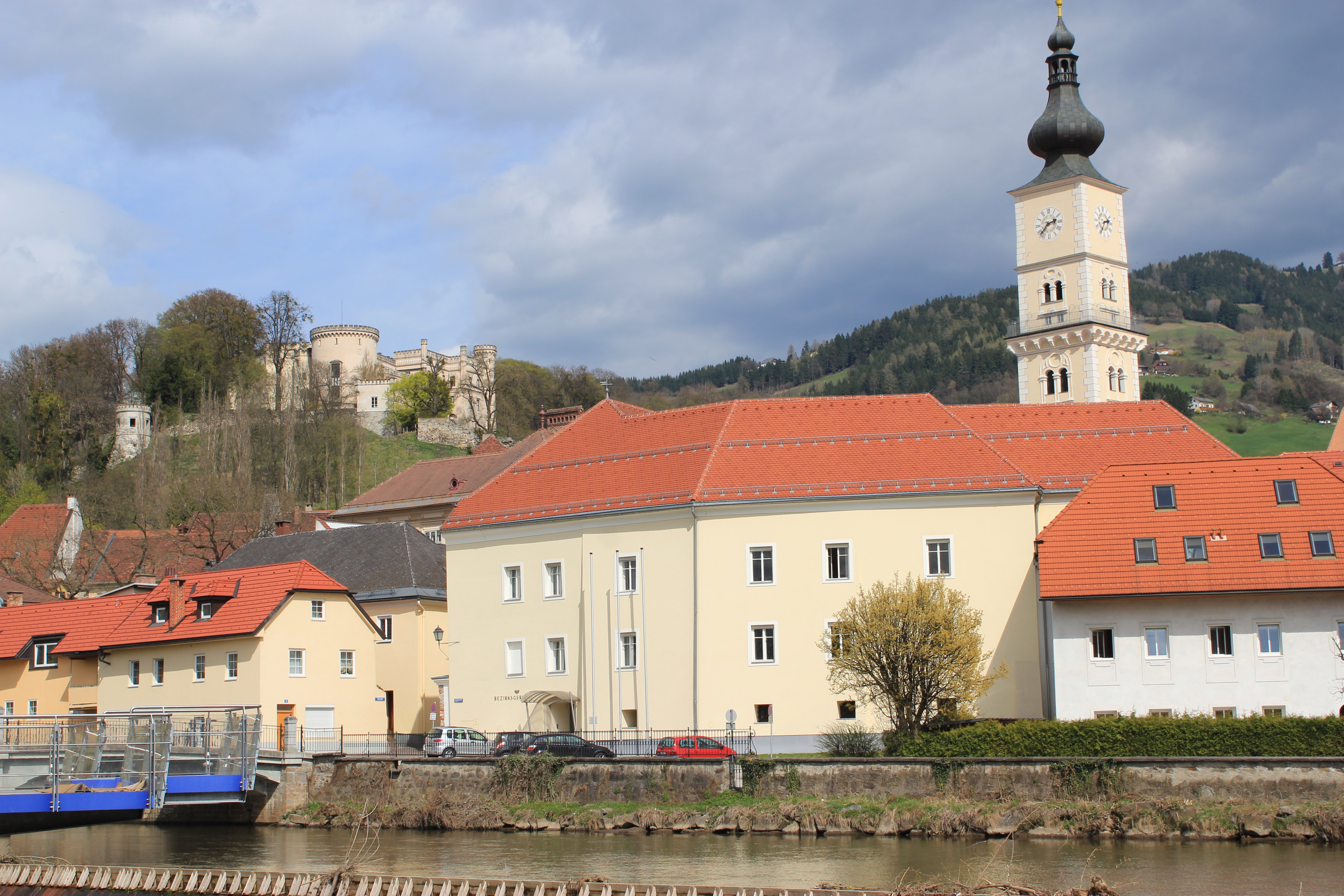 Wolfsberg - detail